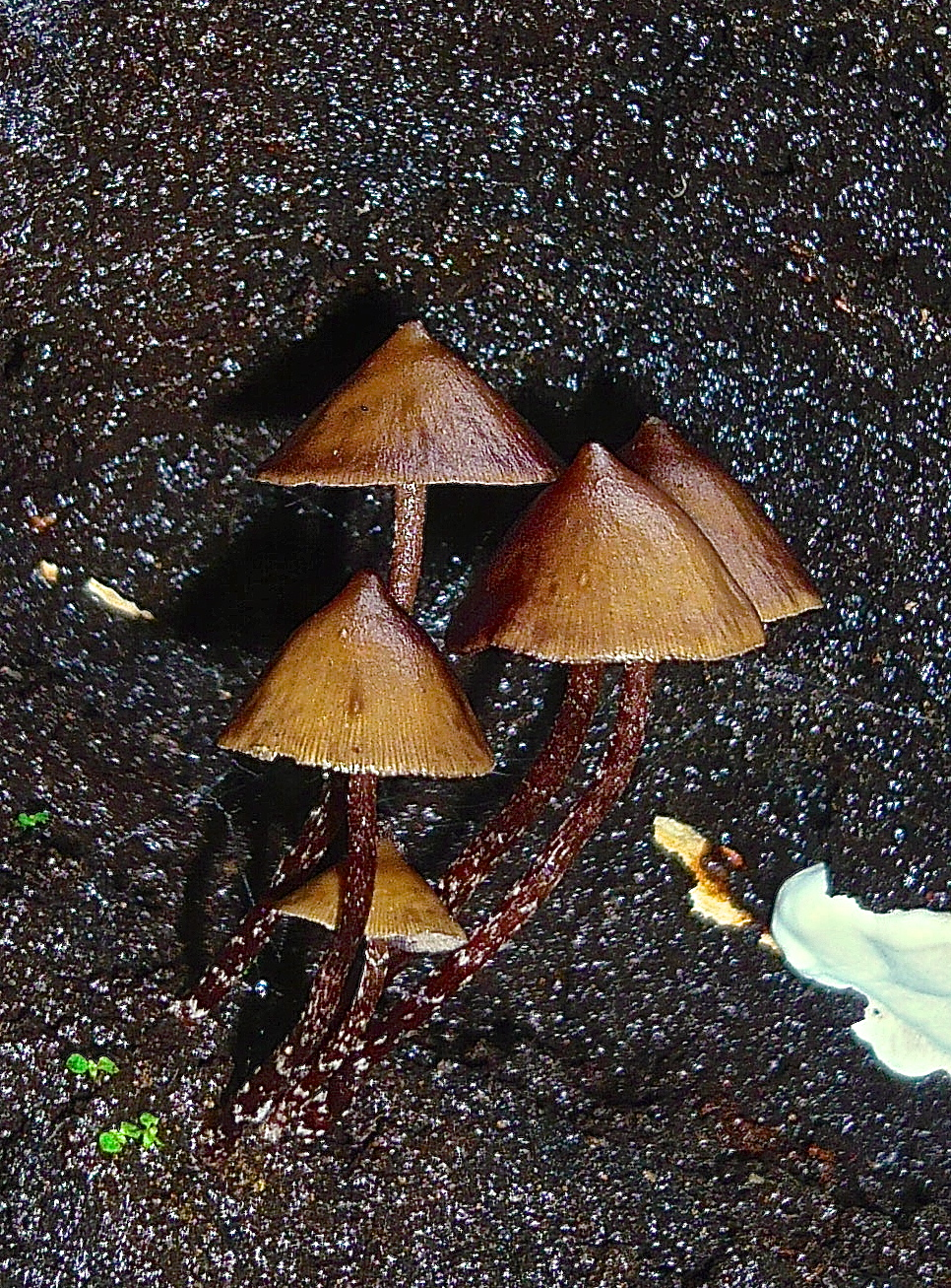 Psilocybe yungensis Singer & A.H. Sm Image location: Xalapa, Veracruz, Mexico Recognized by sight For more information about this, see the observation page at Mushroom Observer.